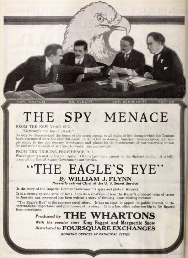 Advertisement for the American film serial The Eagle's Eye (1918) with Paul Everton as Captain Franz von Papen, Fred C. Jones as Dr. Heinrich Albert, Bertram Marburgh as Count Johann von Bernstorff, and John P. Wade as Captain Karl Boy-Ed, on page 8 of the February 2, 1918 Exhibitors Herald.